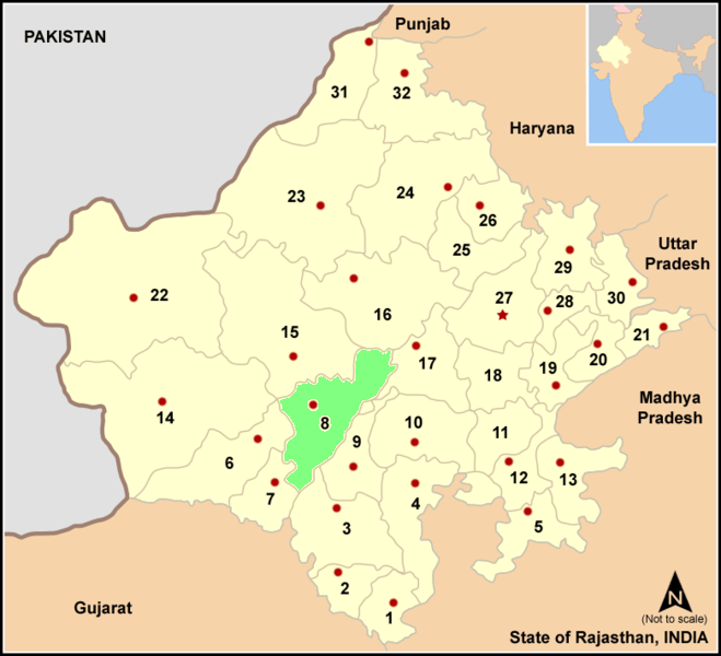 Pali District in Rajasthan